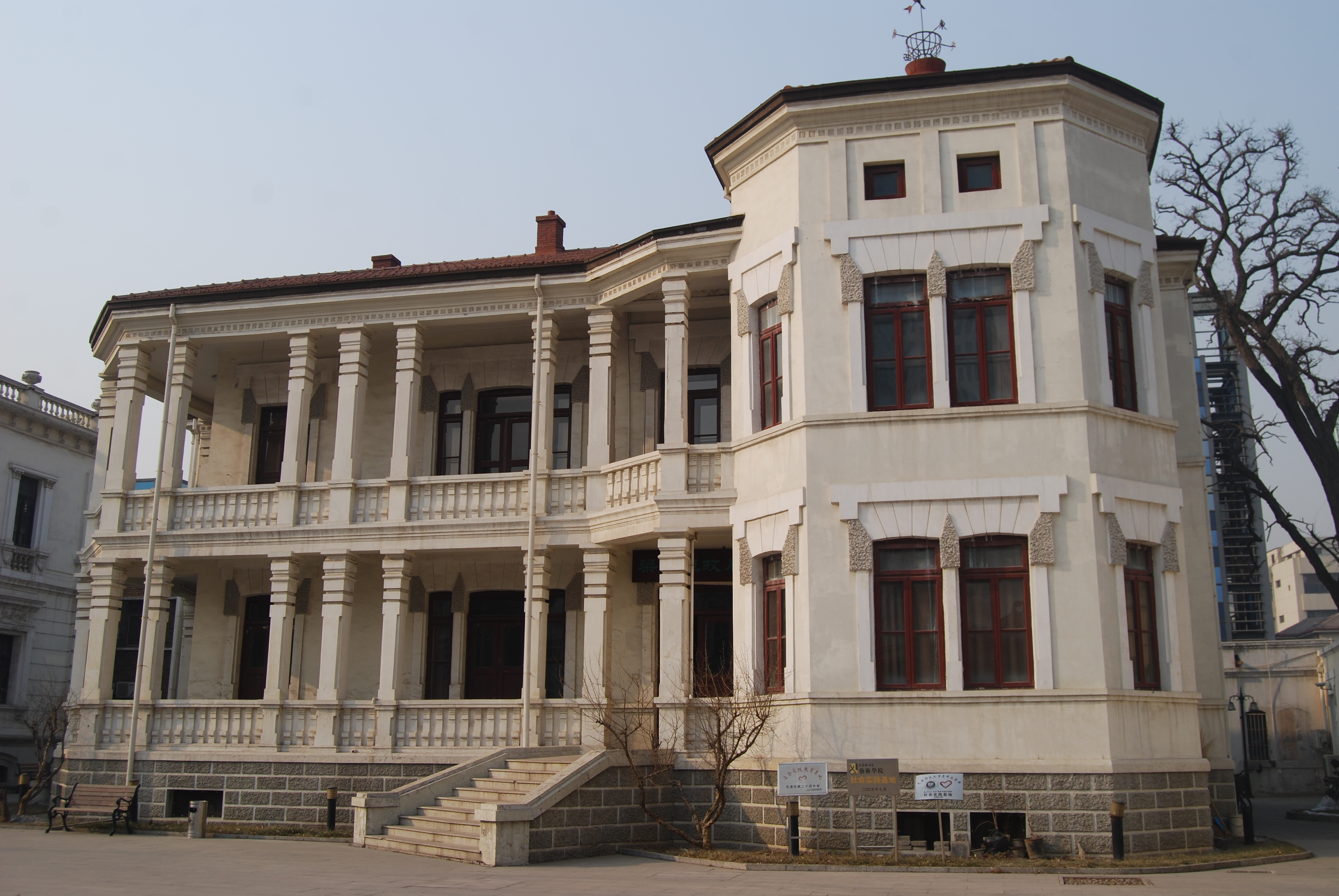 Former residence of Liang Qichao (1873–1929) in Minzu Lu No. 44–46, Hebei District, Tianjin